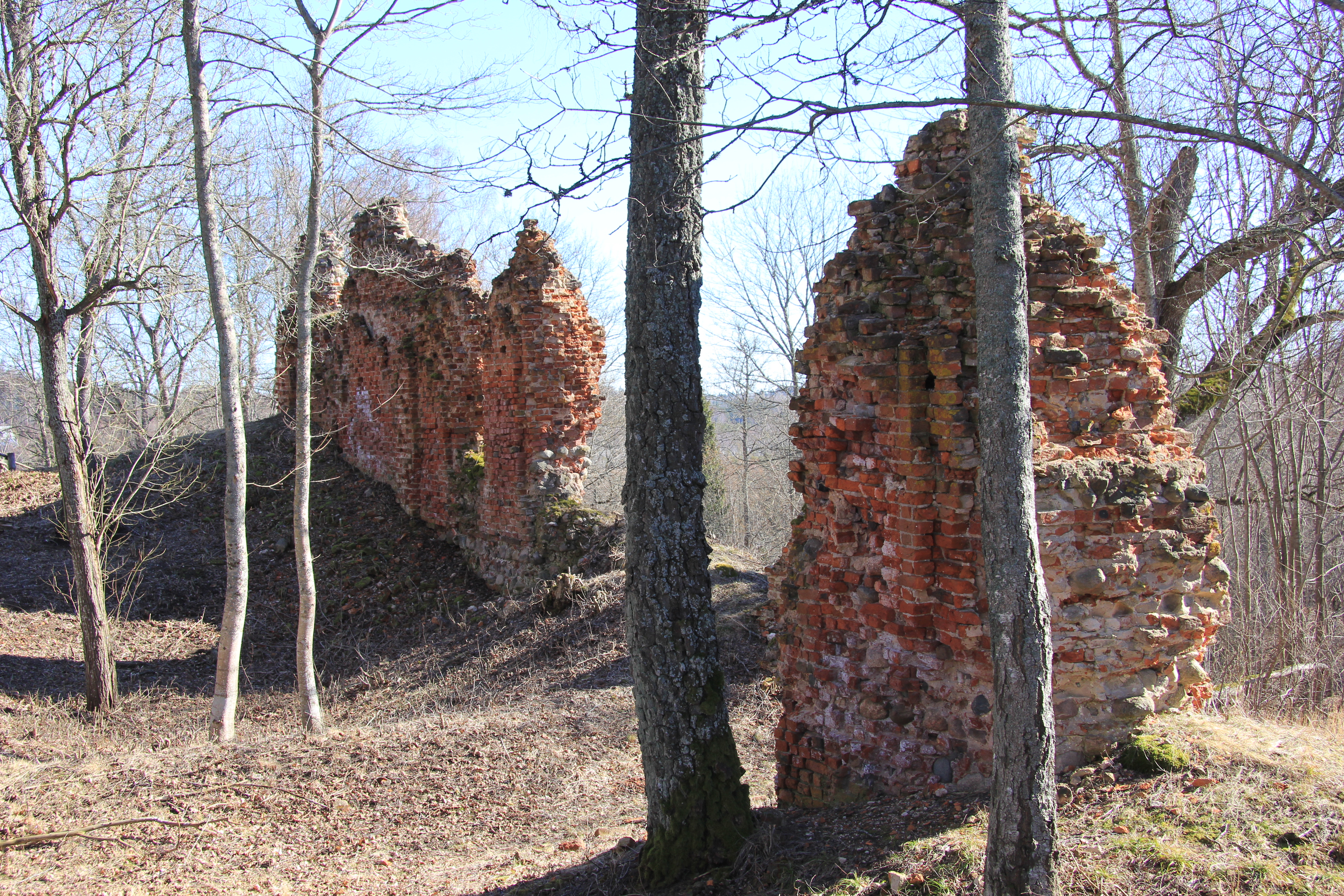 Augstroze Castle ruins